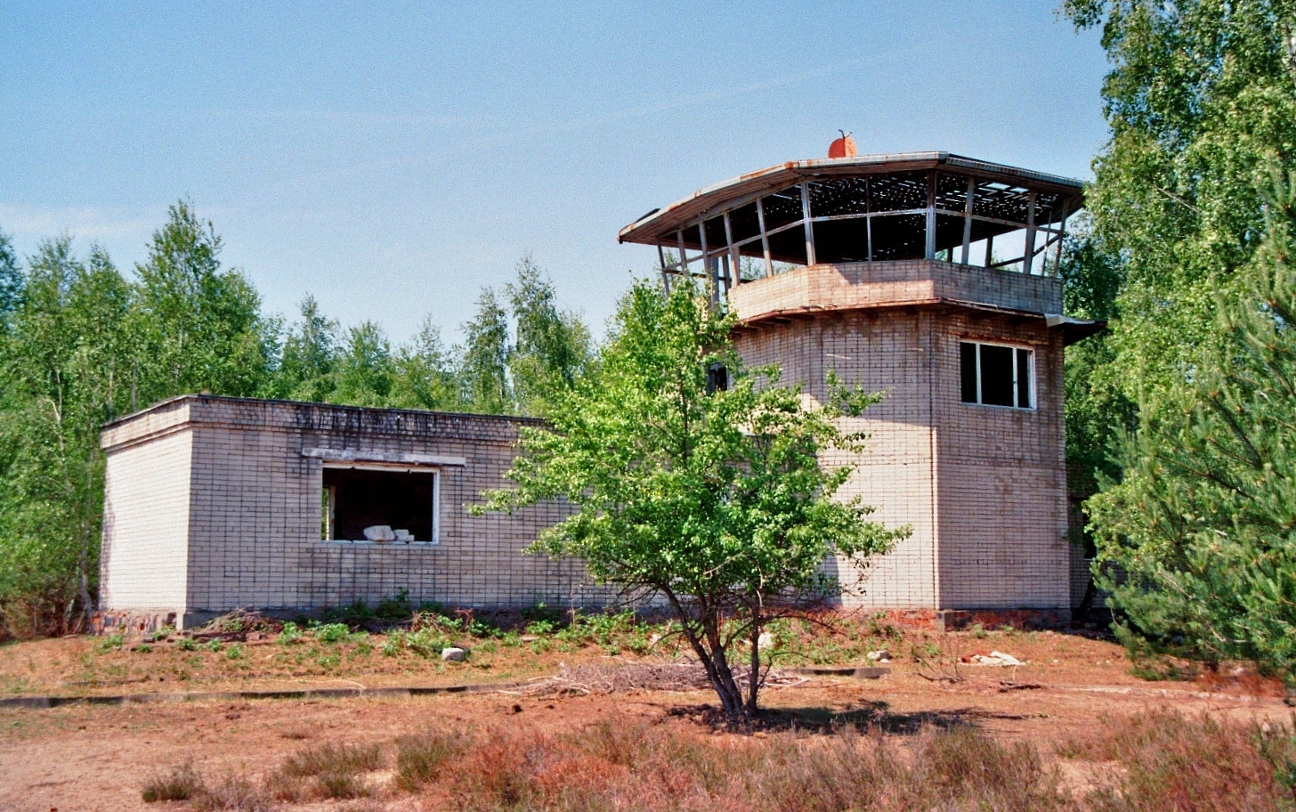 Abandoned military building of the former Group of Soviet Forces in Germany proving ground (or training area) in the Reicherskreuzer Heide in Brandenburg, Germany.